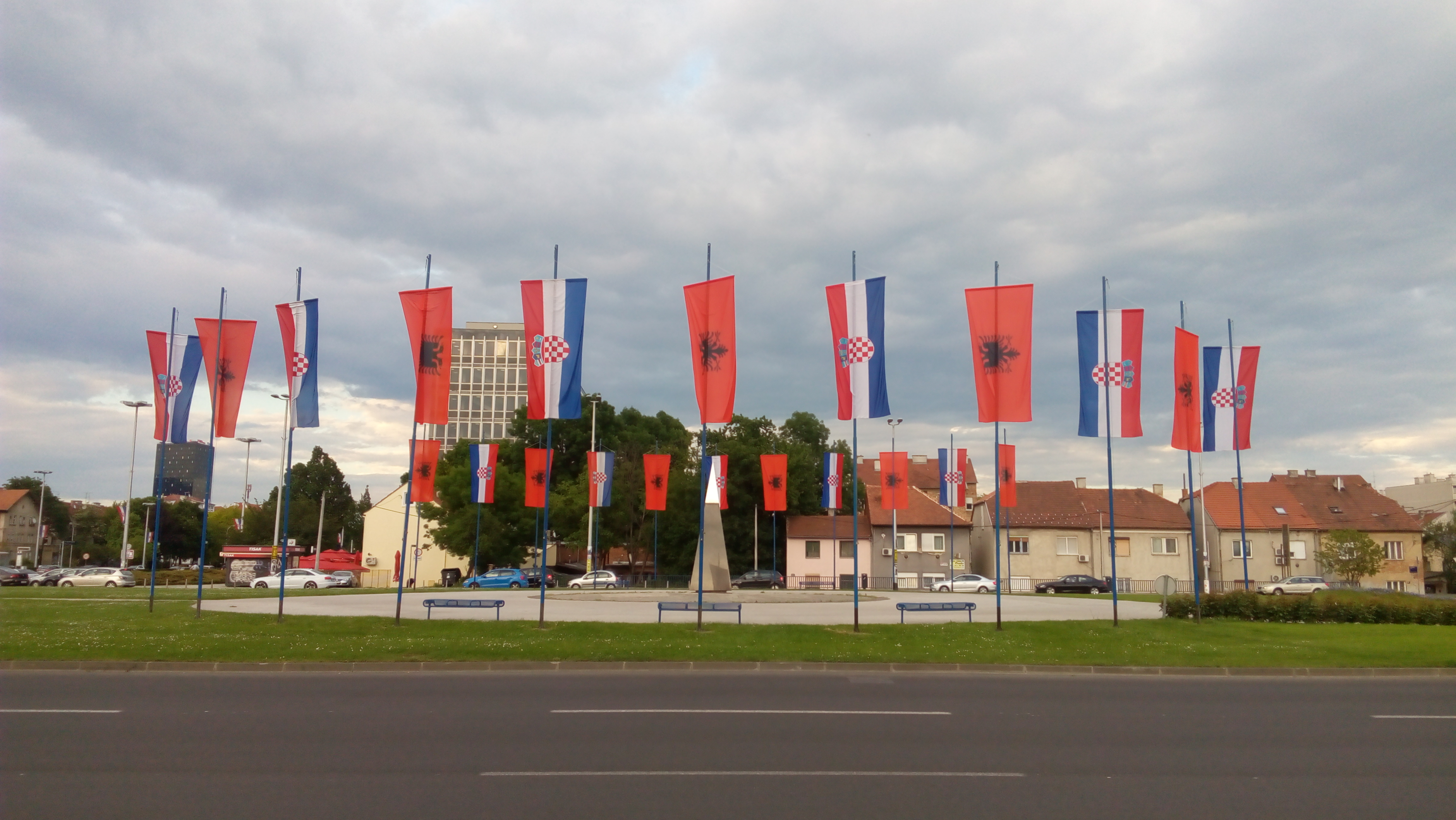 Flags of Croatia and Albania in Zagreb on the occasion of Albanian President Bujar Nishani's visit to Croatia.